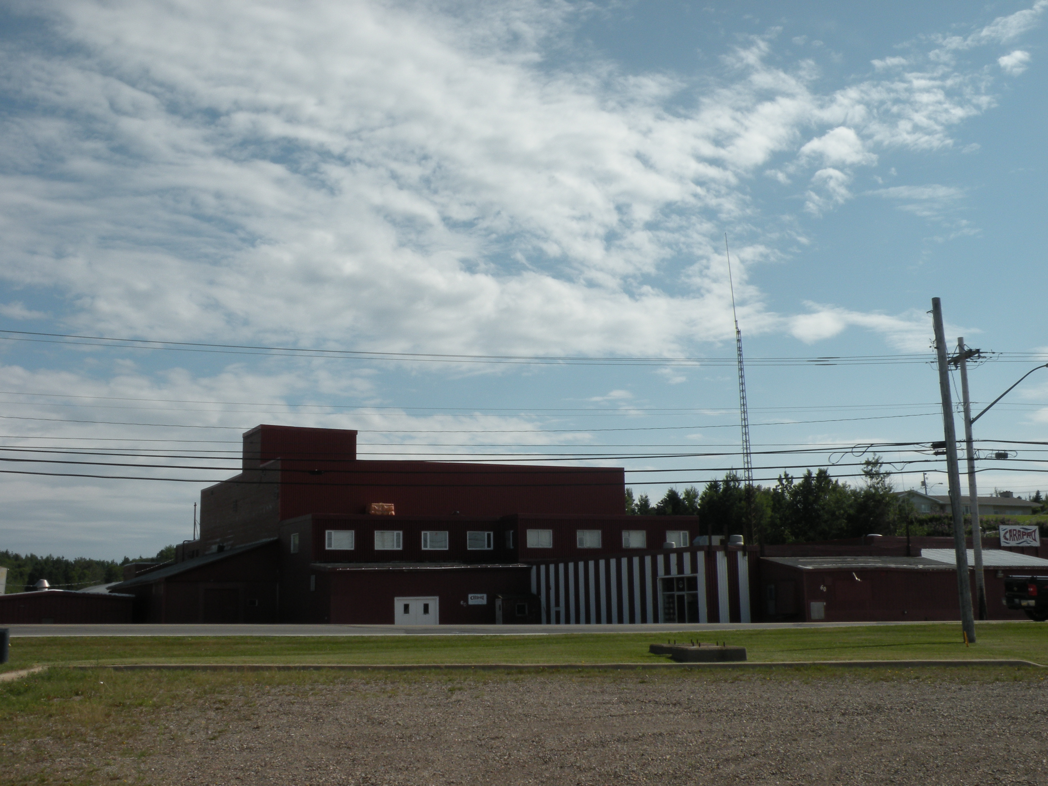 The former Carapro fish processing plant in Caraquet, New Brunswick, Canada.